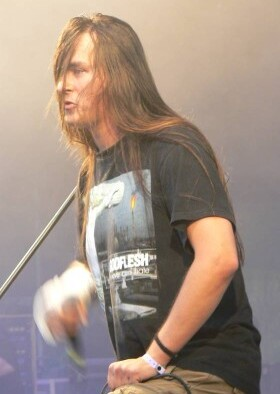 Decapitated, HunterFest, Szczytno, Plaża Miejska, 13.08.2006